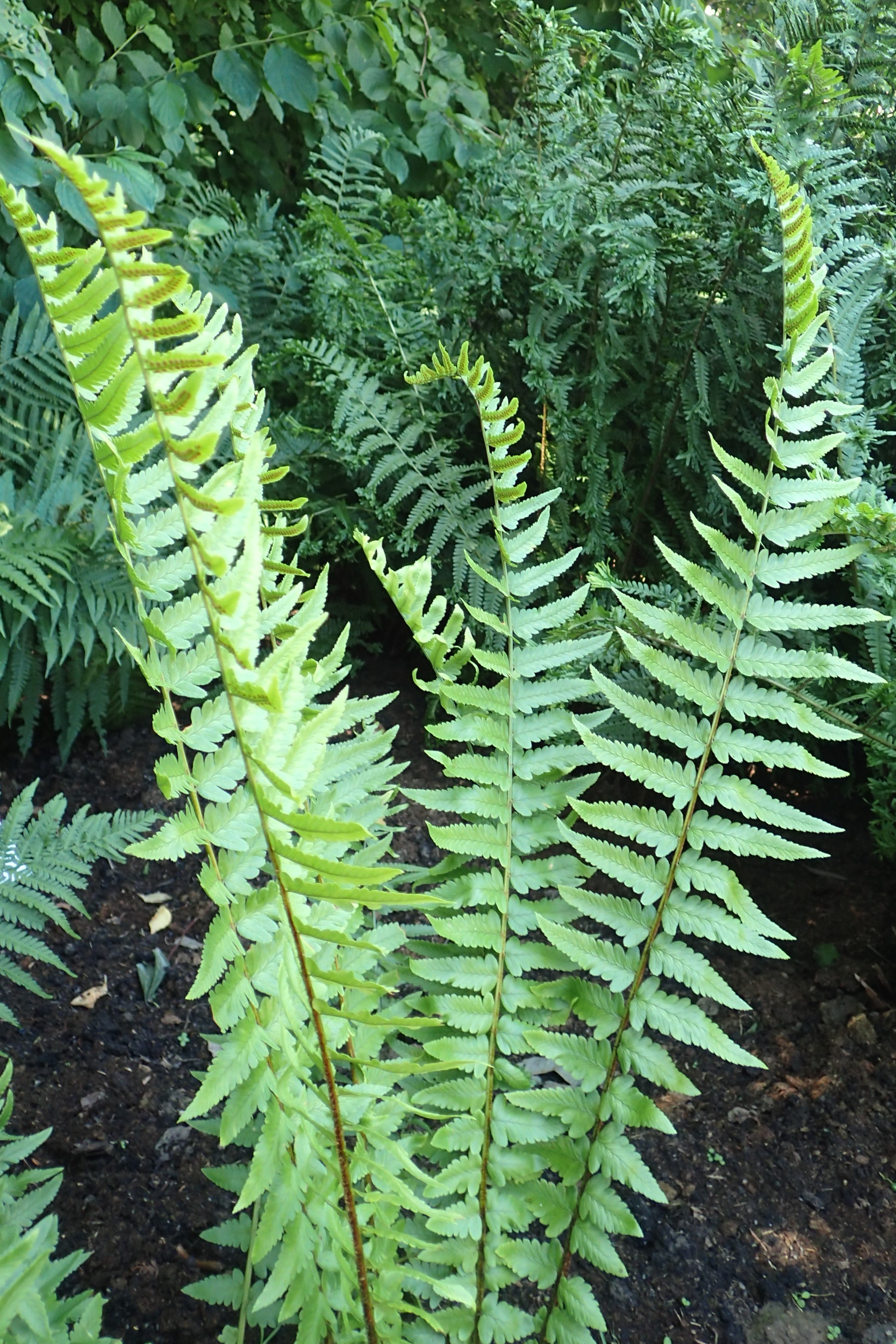 Dryopteris tokyoensis in the UMCS Botanical Garden in Lublin